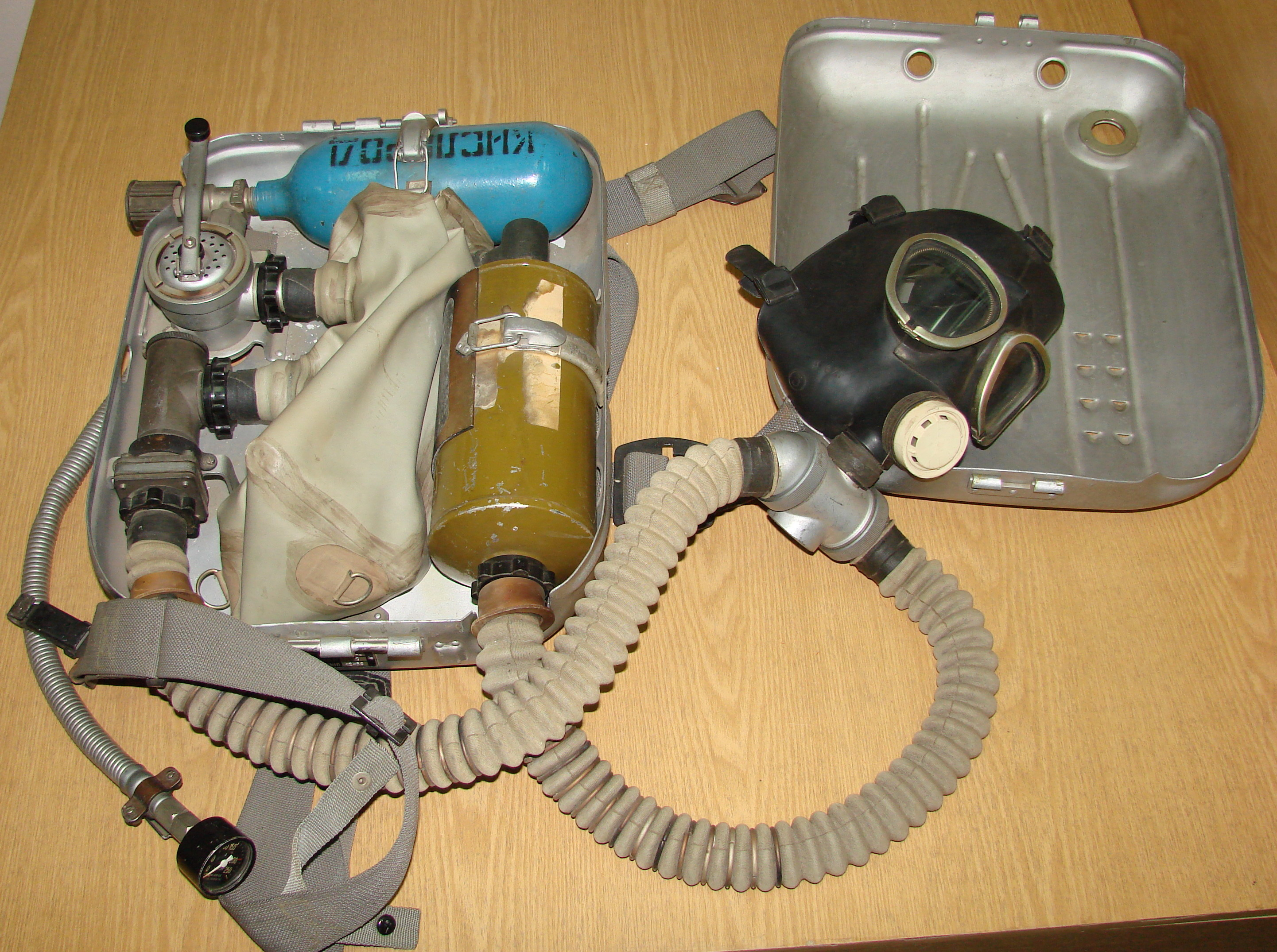 Russia, Vologda firefighting museum, self-contained oxygen gas mask, breathing apparatus closed-loop